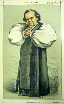 Caricature of Samuel Wilberforce, Bishop of Oxford. Caption read "Not a brawler".